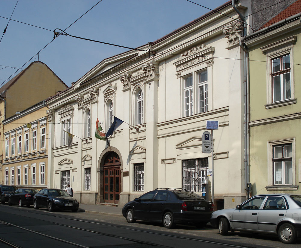 6 Hunyadi Street, Miskolc, Hungary